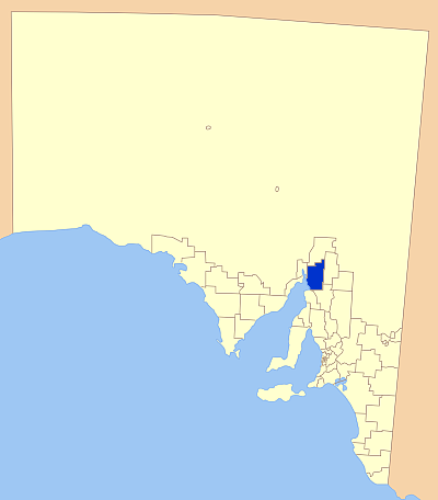 Modification of Astrokey44's original map found here: File:SA_LGA_blank.png Position of Coober pedy LGA